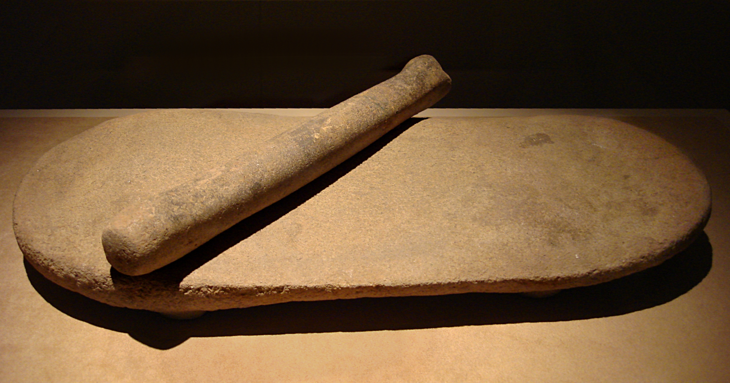 Millstone and Roller Peiligang Culture Neolithic Period (ca. 5500–5000 B.C.) Excavated at Xinzheng, Henan Province, 1979 A simple block of stone with a flattened surface was used as a millstone, on which the bar was rolled to grind millet and grain into flour. Grains could also be threshed through this process, as it separated husks and chaff from edible parts of the grain.